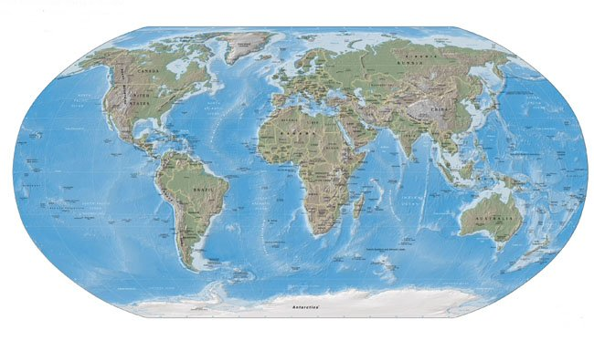 Physical World Map; Robinson projection; Standard parallels 38°N and 38°S.